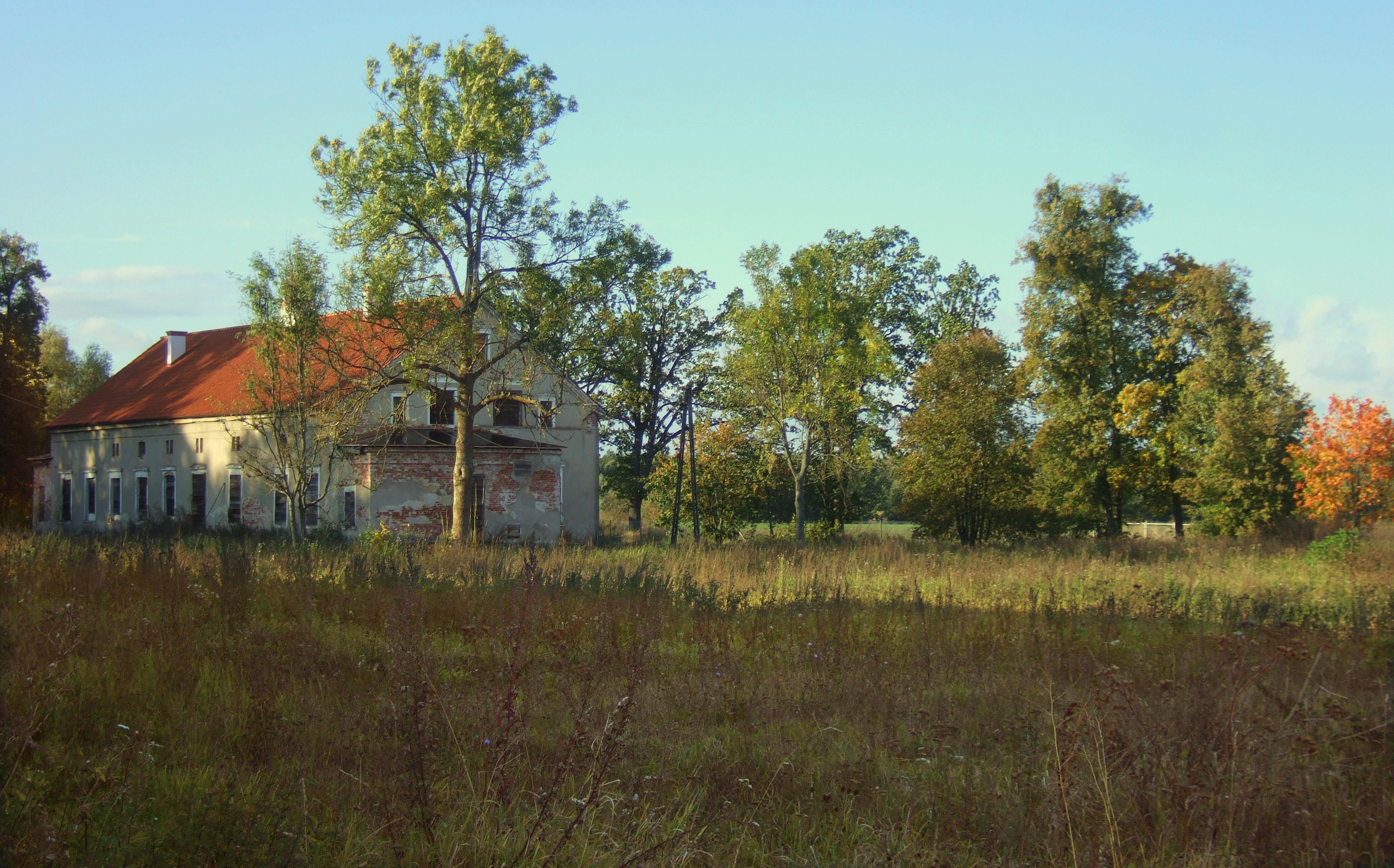 Manor- house in Lusiny from XIX, village in Warmian-Masurian Voivodeship in Poland, back and side.